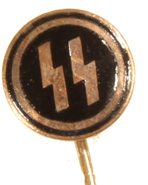 SS-Zivilabzeichen (civli badge) of Hermann R. Senkowsky